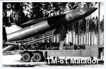 TM-61 Matador: A Matador missile on its launcher near Hahn Air Base, West Germany, in an undated photo. The missile was assigned to the 701st Tactical Missile Wing.